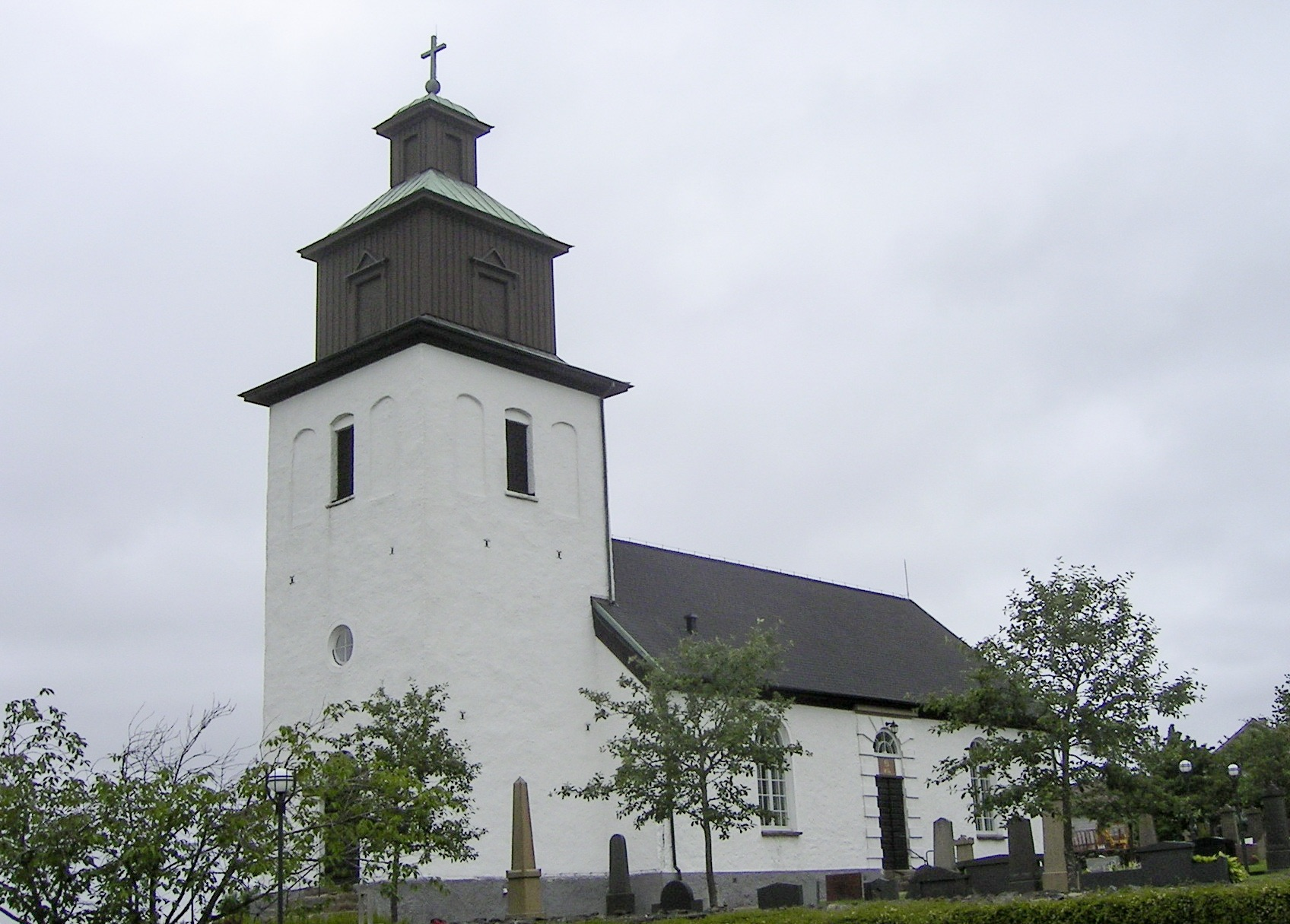 Church of Stamnared, Halland, Sweden